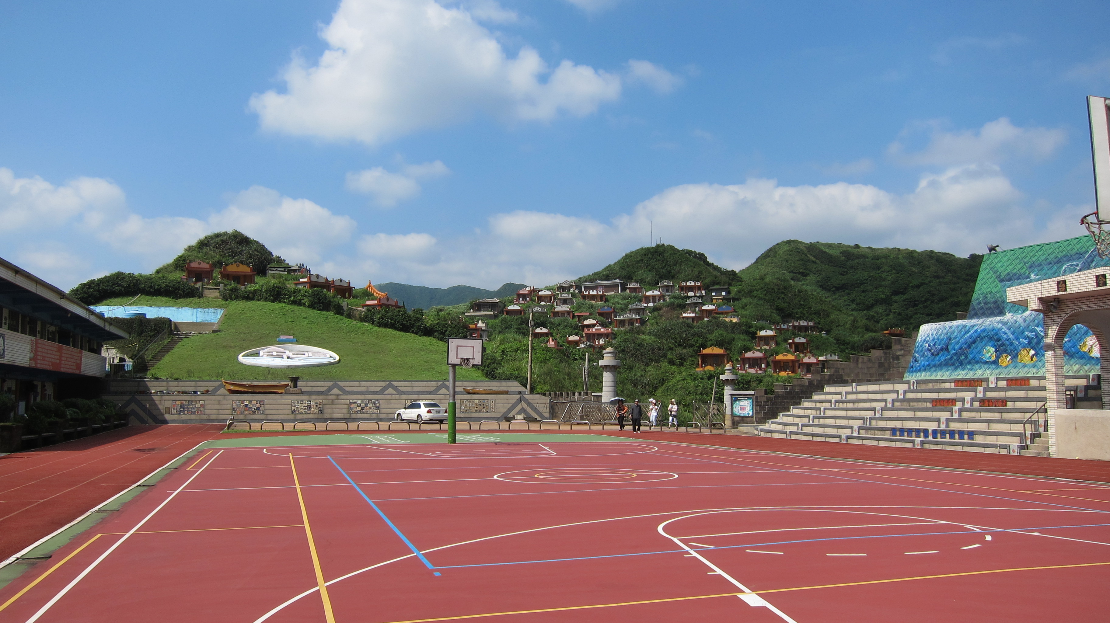 The basketball court of Bitou Elementary School in New Taipei City, Taiwan.中文（台灣）: 新北市瑞芳區鼻頭國民小學的籃球場。